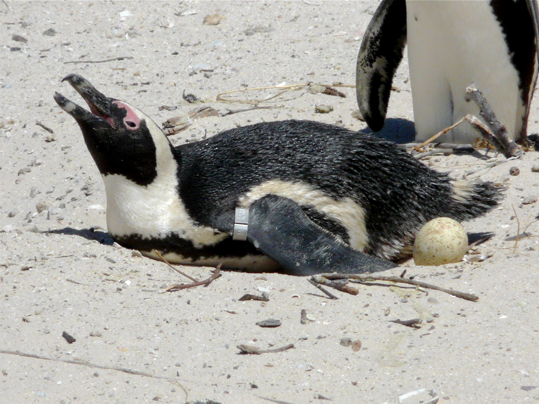 Spheniscus demersus experiencing heat stress while breeding